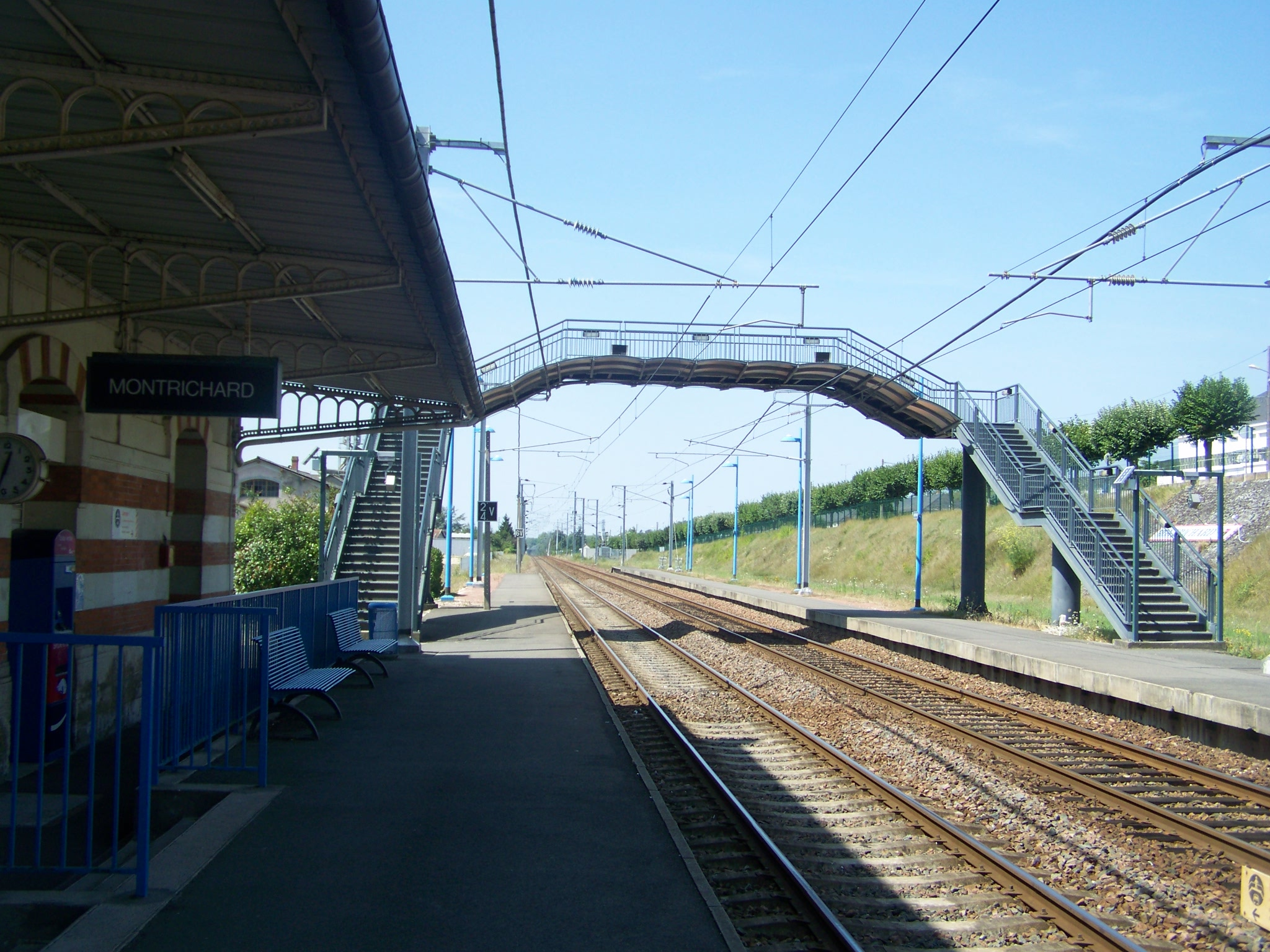 Platforms and tracks of village of Montrichard railway station, in Loir-et-Cher, France.